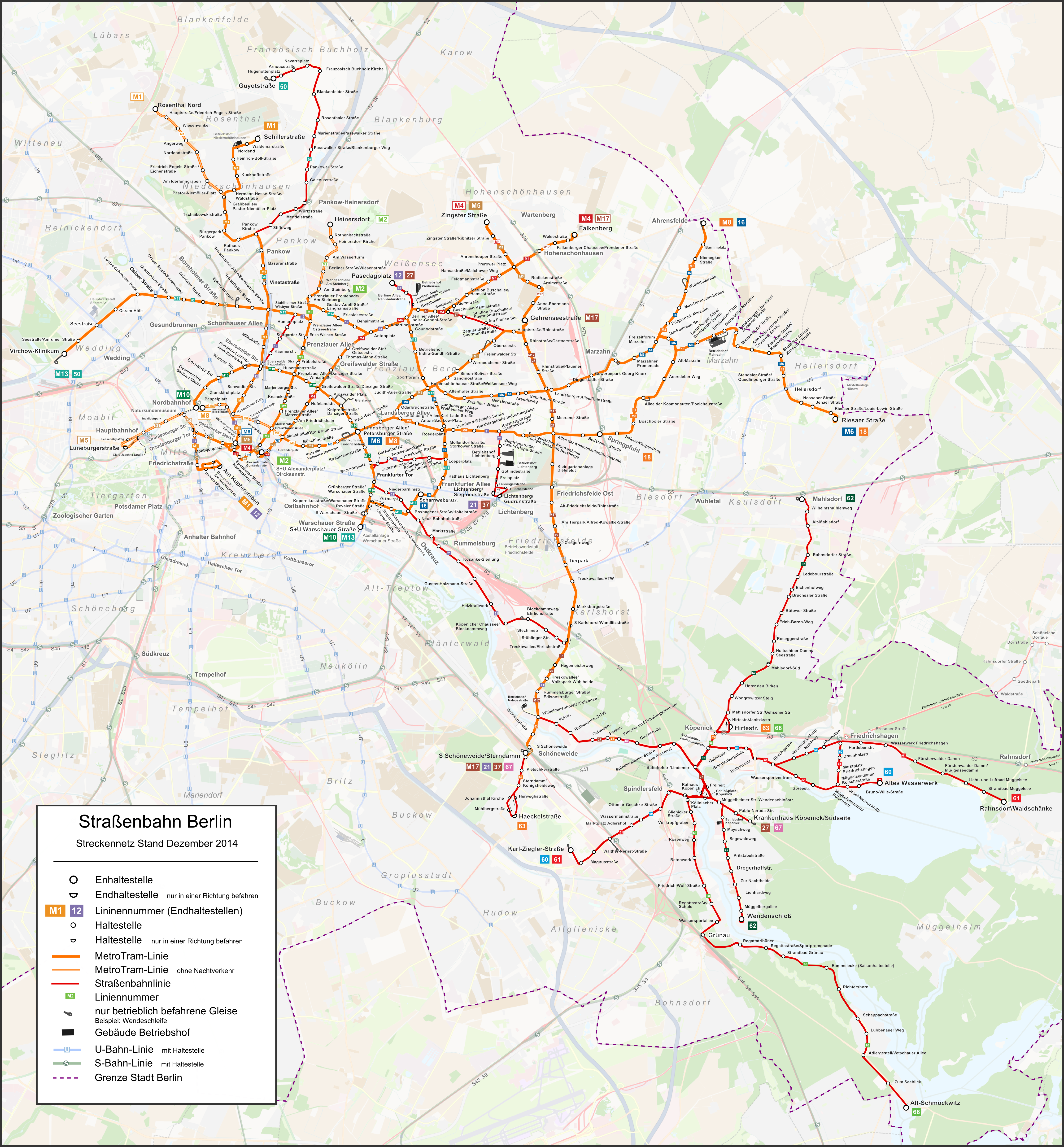 Map of Berlin tram as per December 2014 (including extension to main station)